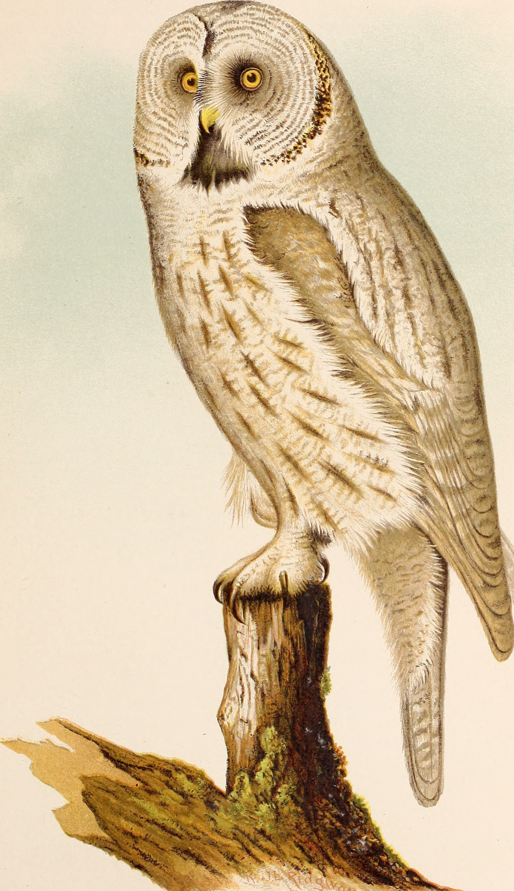 Title: Contributions to the natural history of Alaska. Results of investigations ... in the Yukon district and the Aleutian islands; conducted under the auspices of the Signal service, United States Army, extending from May, 1874, to August, 1881 .. Year: 1886 (1880s) Authors: Turner, Lucien McShan Subjects: Meteorology; Natural history Publisher: Washington, Govt. Print. Off Text Appearing Before Image: PLATE V. Text Appearing After Image: 6ILES LITHft* LIBERTY PRINTING CO. NY UEULA CINEREA LAPPONICA (Retz.) Adult Female, one-third Natural Size.